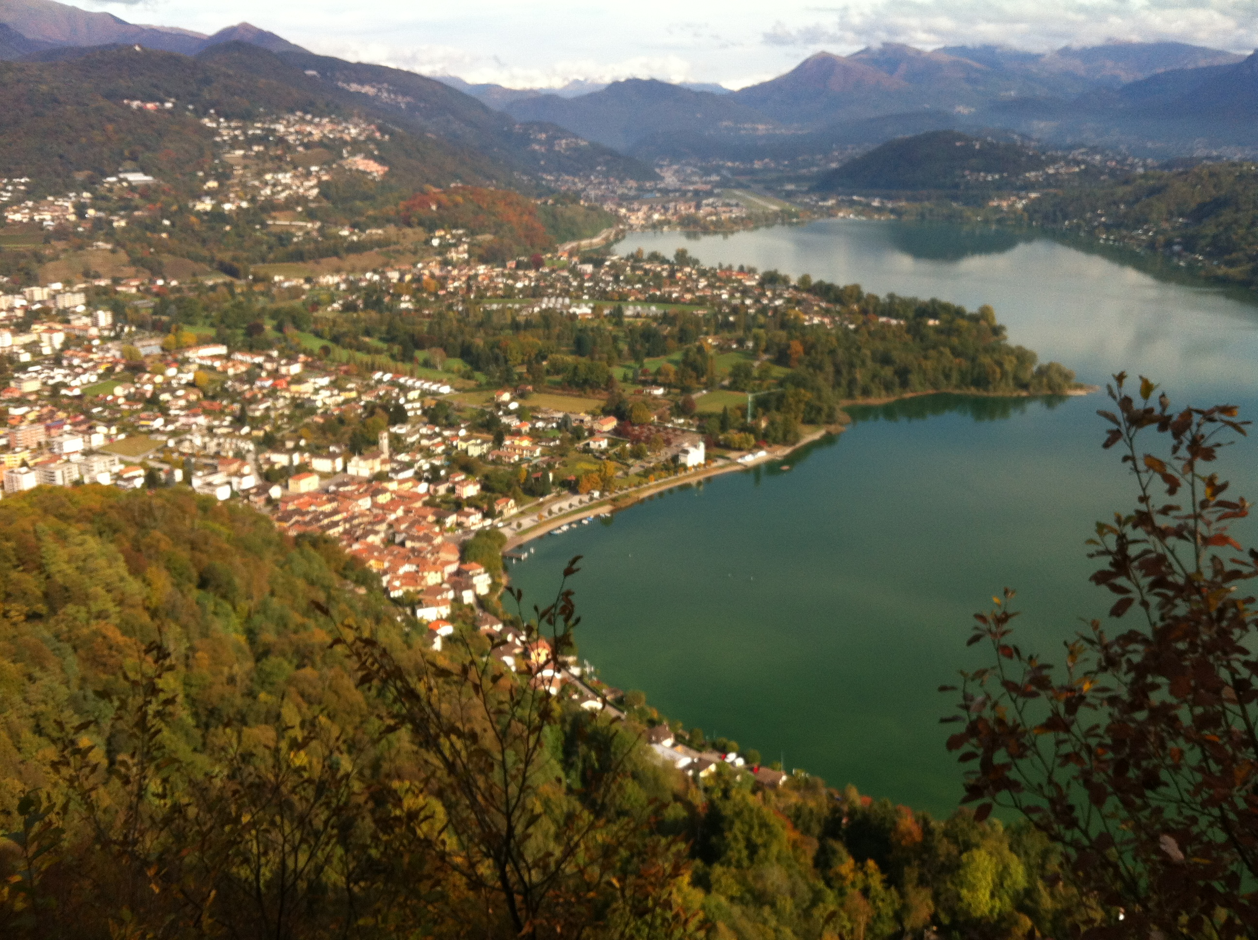 Agno Airport seen from Monte Caslano